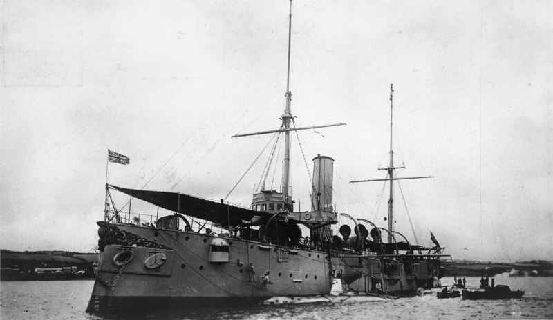 THE ROYAL NAVY IN THE FIRST WORLD WAR (Q 75492) Cruiser HMS Thames. Copyright: IWM. Original